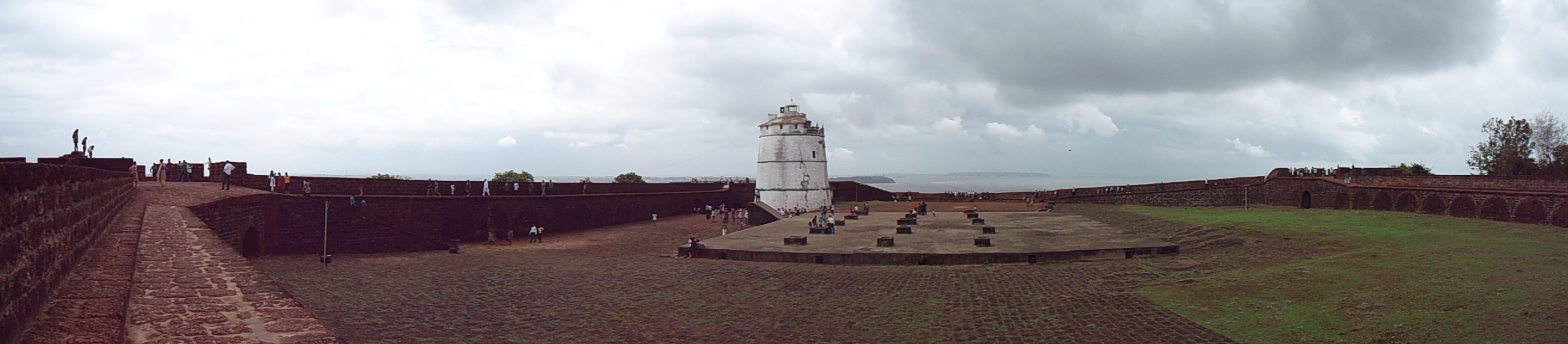 Panorama of Fort Aguada, Goa India